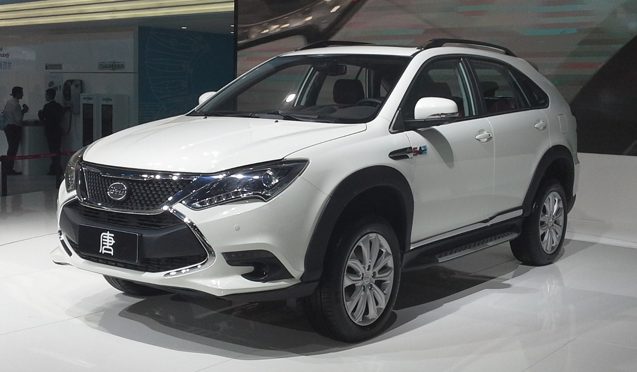 BYD Tang photographed at the Auto China 2014, Beijing, China.